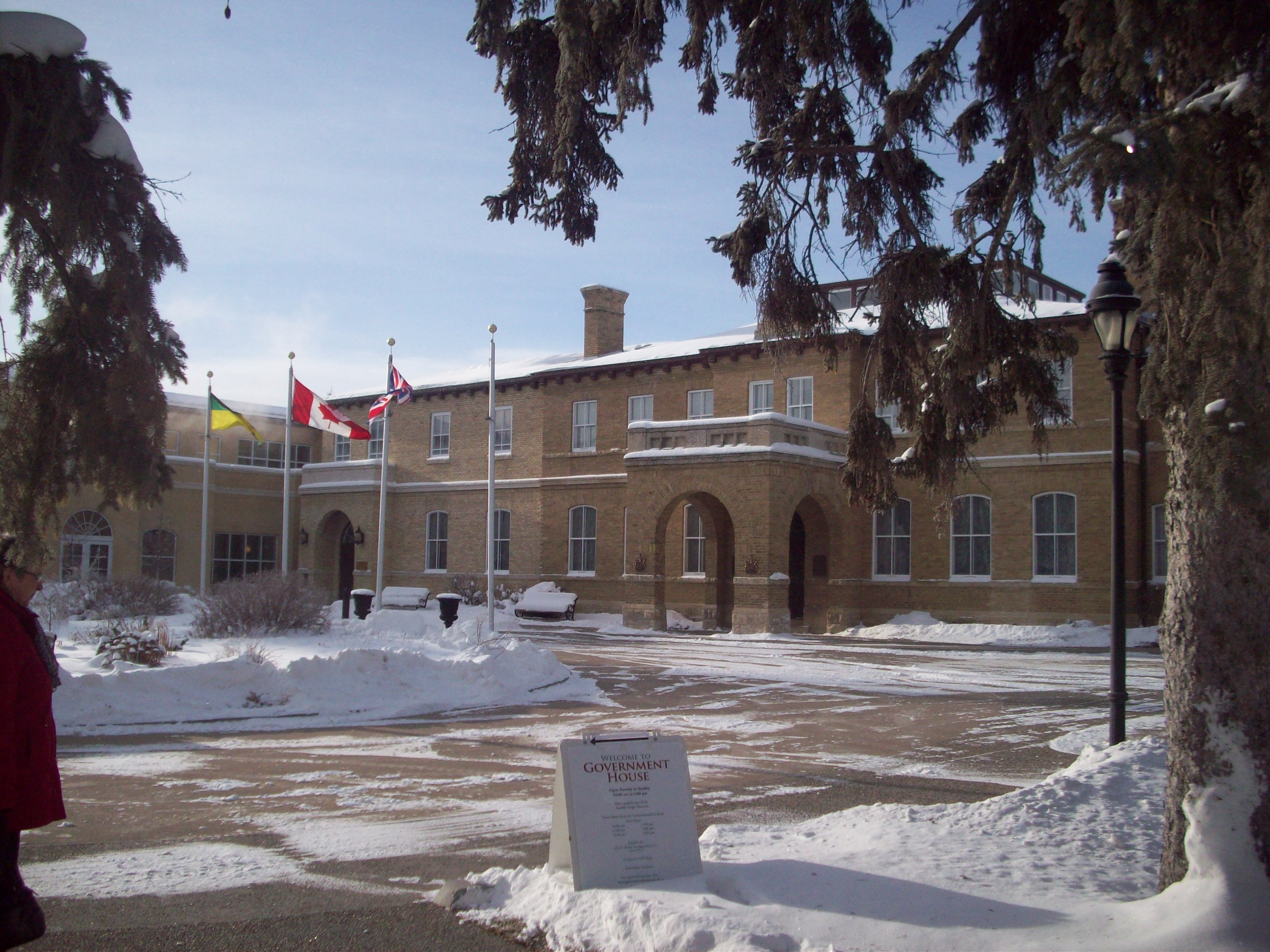 Govt House Regina with visitor centre